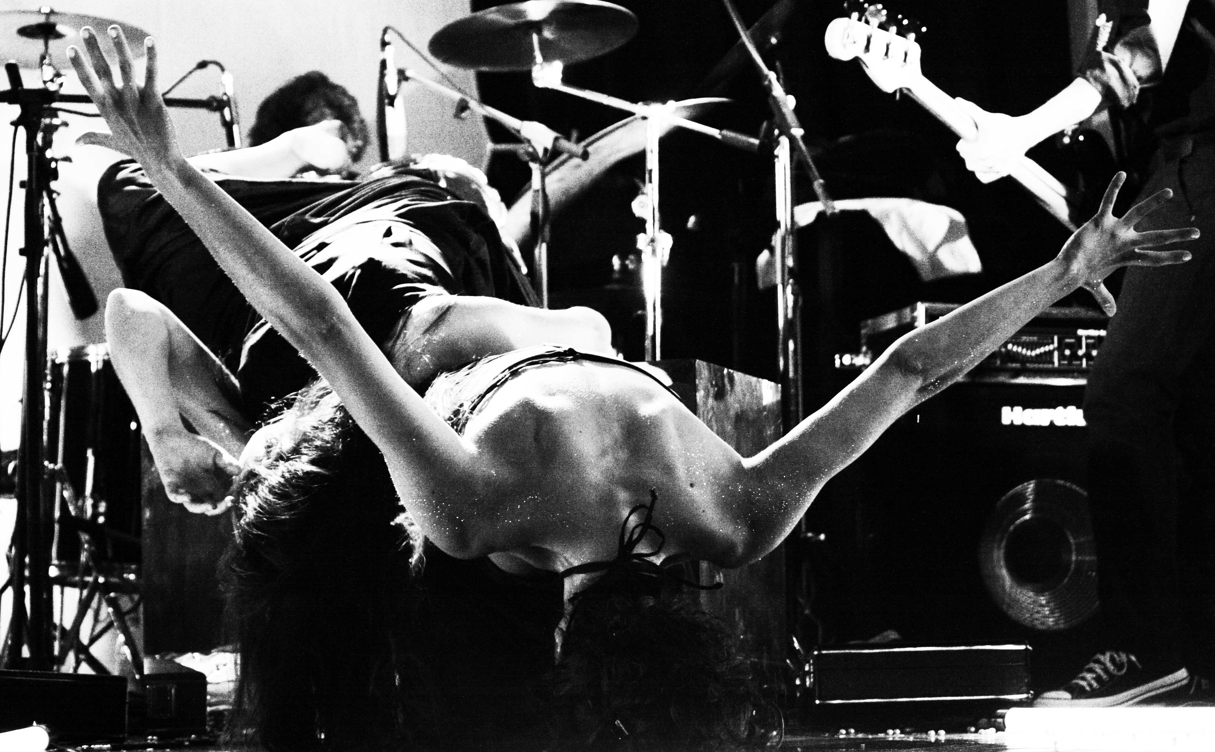 C.F.F. e il Nomade Venerabile live - June 6, 2009